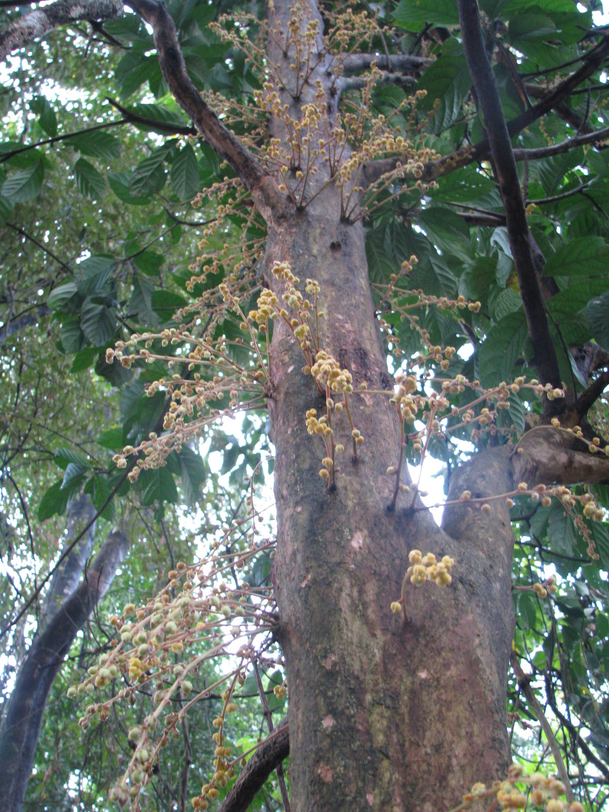 Baccurea sapida tree in Pakke Tiger Reserve